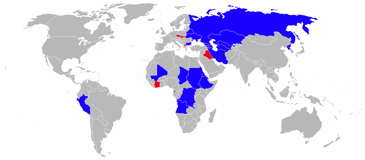 World map of Sukhoi Su-25 operators